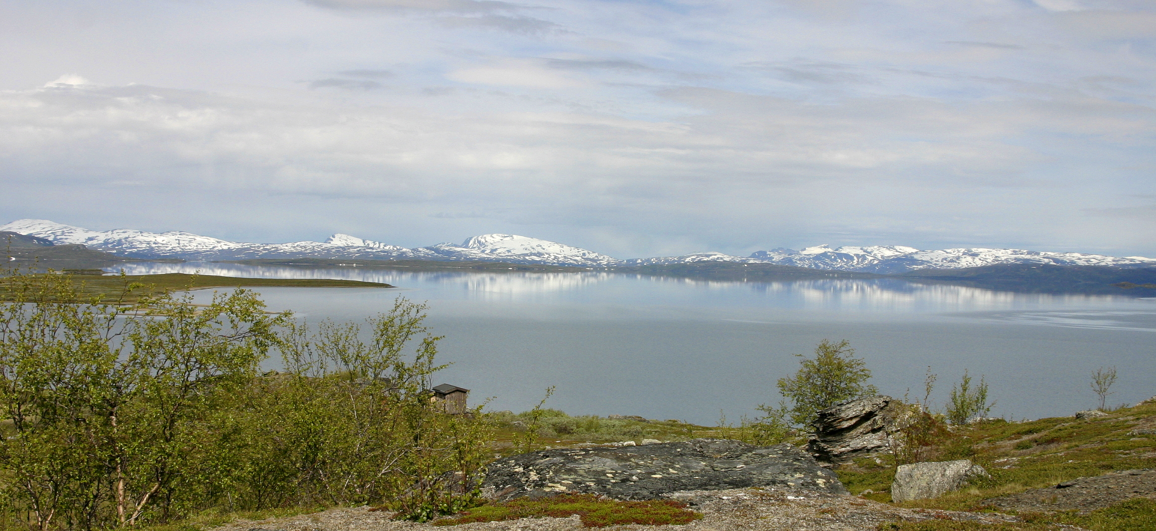 Lake Virihaure (Padjelanta National Park, Laponia, Sweden) as seen from Stáloluokta on the southern shore.